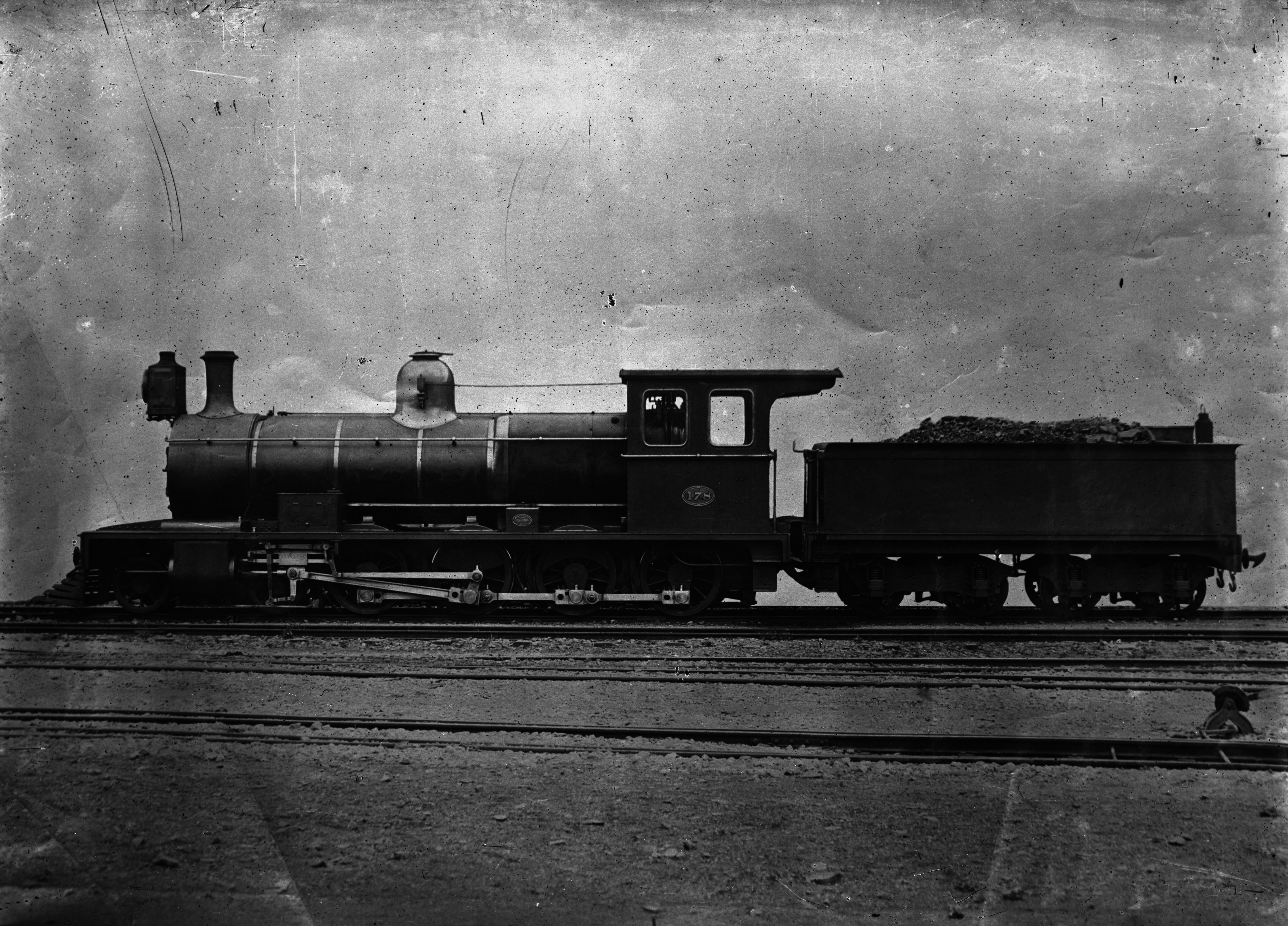 B class 4-8-0 locomotive, New Zealand Railways no 178, photographed about the time of introduction to service, December 1899. Photographed by A P Godber.